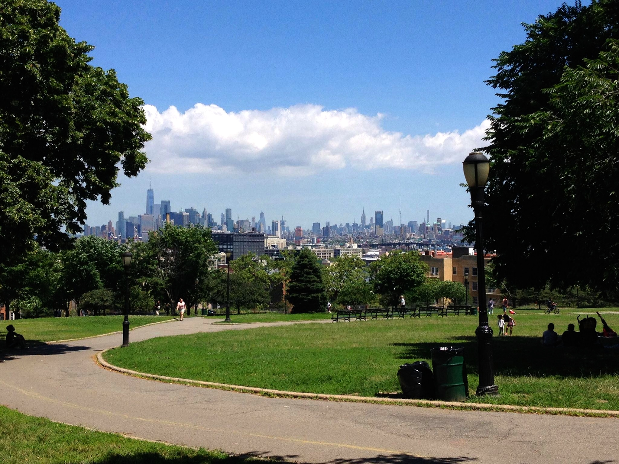 Manhattan skyline from Sunset Park, Summer 2018